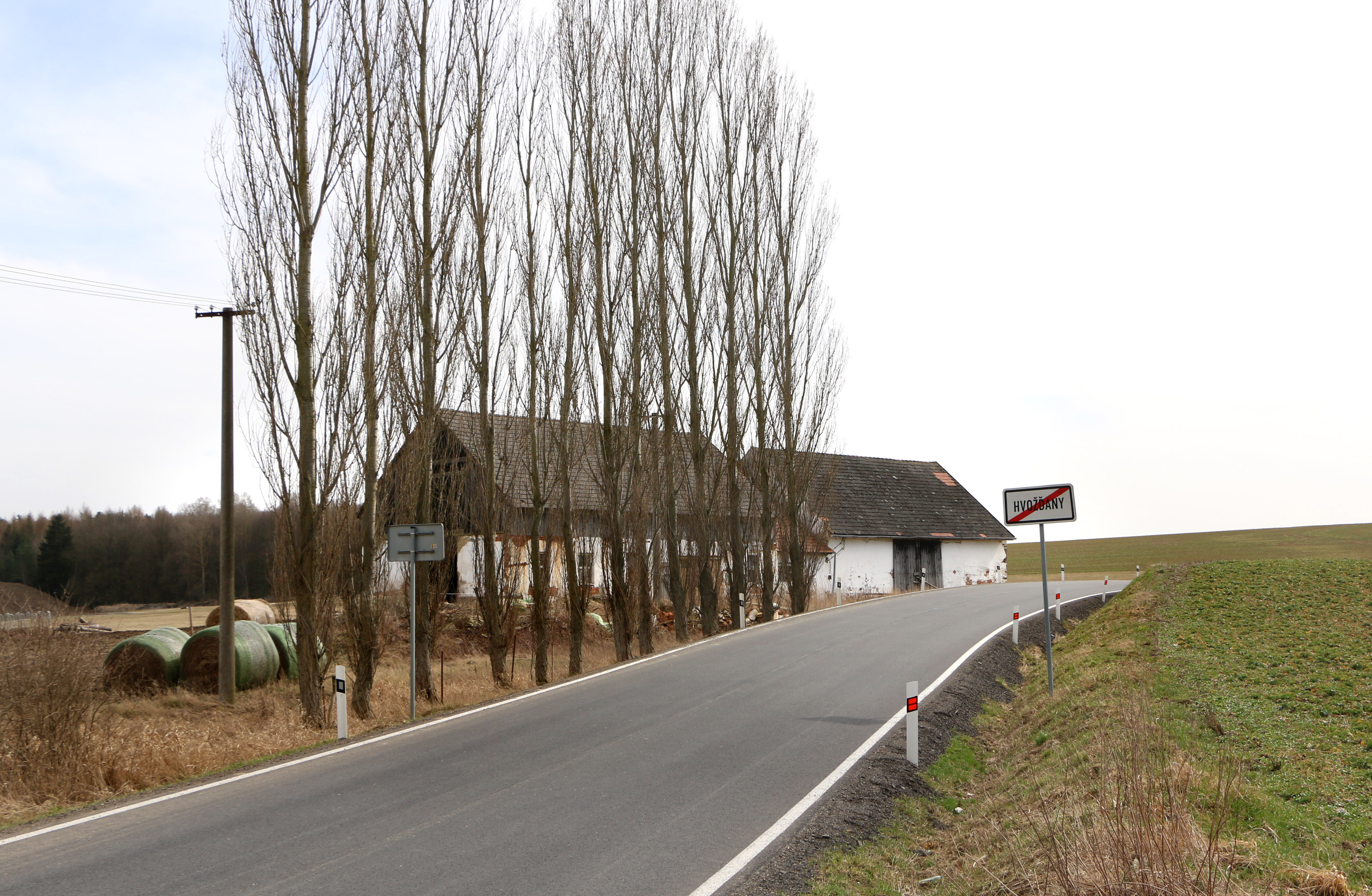 Court by road No 193 in Hvožďany, part of Úněšov, Czech Republic.